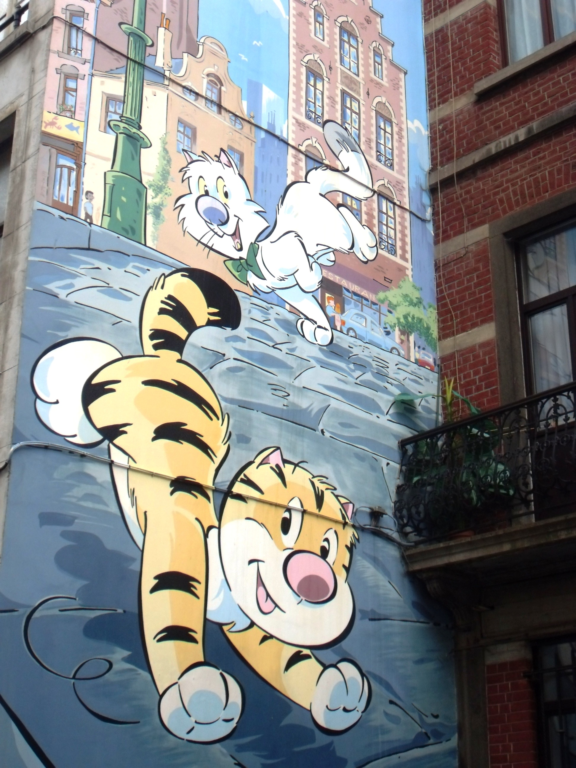 Billy the Cat mural painting, by Stéphane Colman and Stephen Desberg. Location: Rue d'Ophem 24 (Oppemstraat 24), Brussels. Surface: ± 50 m². Realisation: Mangnay J.-Y. , Oreopoulos G., Pieterhons R. and Vandegeerde D. Year: July 2000. Comment: Billy the Cat is the title of a Franco-Belgian comic strip by the Belgian Stéphane Colman and Stephen Desberg, as well as an animated cartoon adaptation, amongst others. Both comic and cartoon deal with the everyday and secret lives of urban animals, although they take very different approaches to it, and while the characters are largely the same in both versions, the stories and situations are very different.